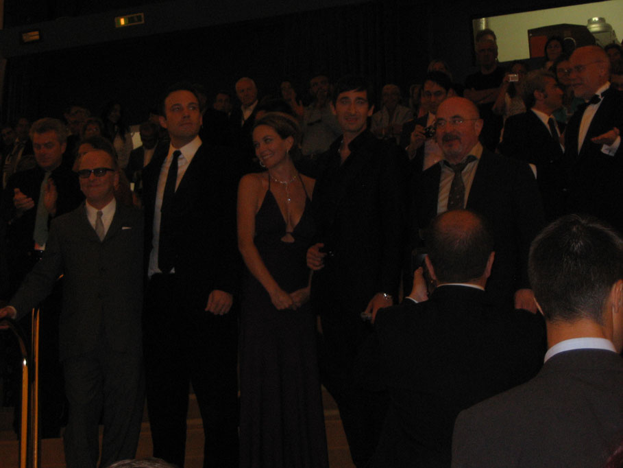 The cast: Ben Affleck, Diane Lane, Adrien Brody, and Bob Hoskins